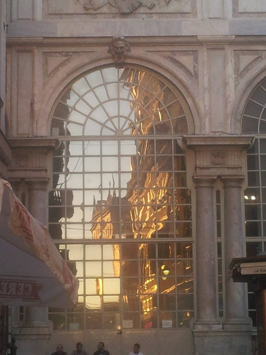 Loggia Dei Mercanti - Genoa - Piaza Banchi This is a photo of a monument which is part of cultural heritage of Italy.